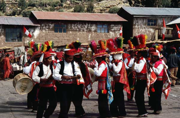 A festival on the Peruvian island of Taquile, in Lake Titicaca, July 2000.